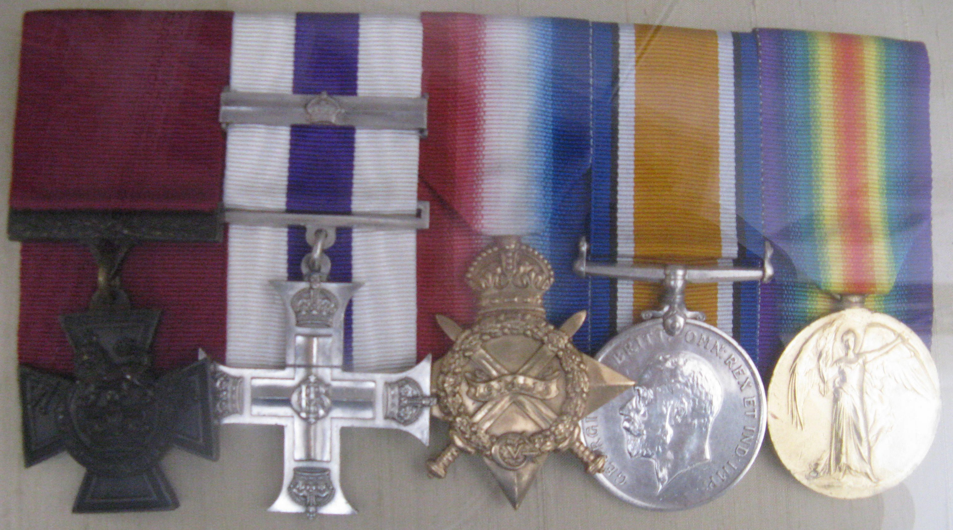 Albert Jacka's medal on display at the State Library of South Australia, under perspex